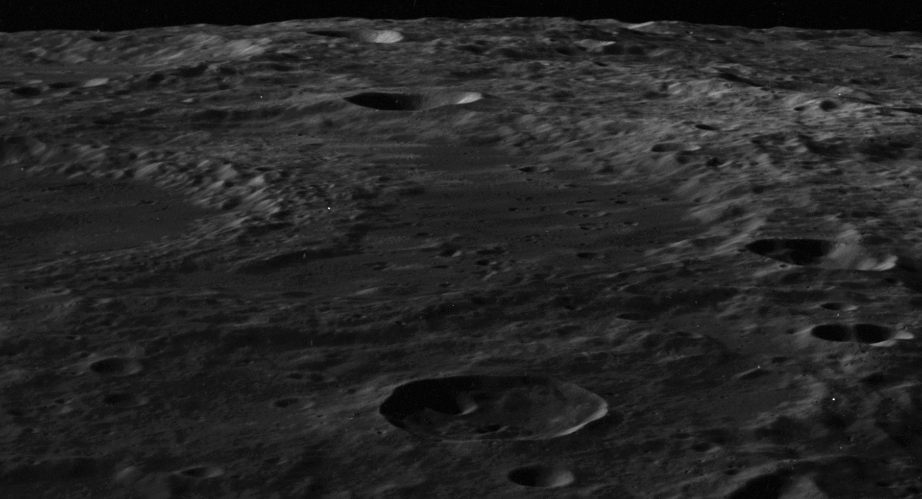 Oblique view of Richardson, on the far side of the moon, facing northwest. Brightness and contrast greatly enhanced. Maxwell is at left. The prominent crater in the foreground is apparently unnamed (as of 2014). Richardson E is at right, and Richardson W is above center beyond the rim of Richardson itself.